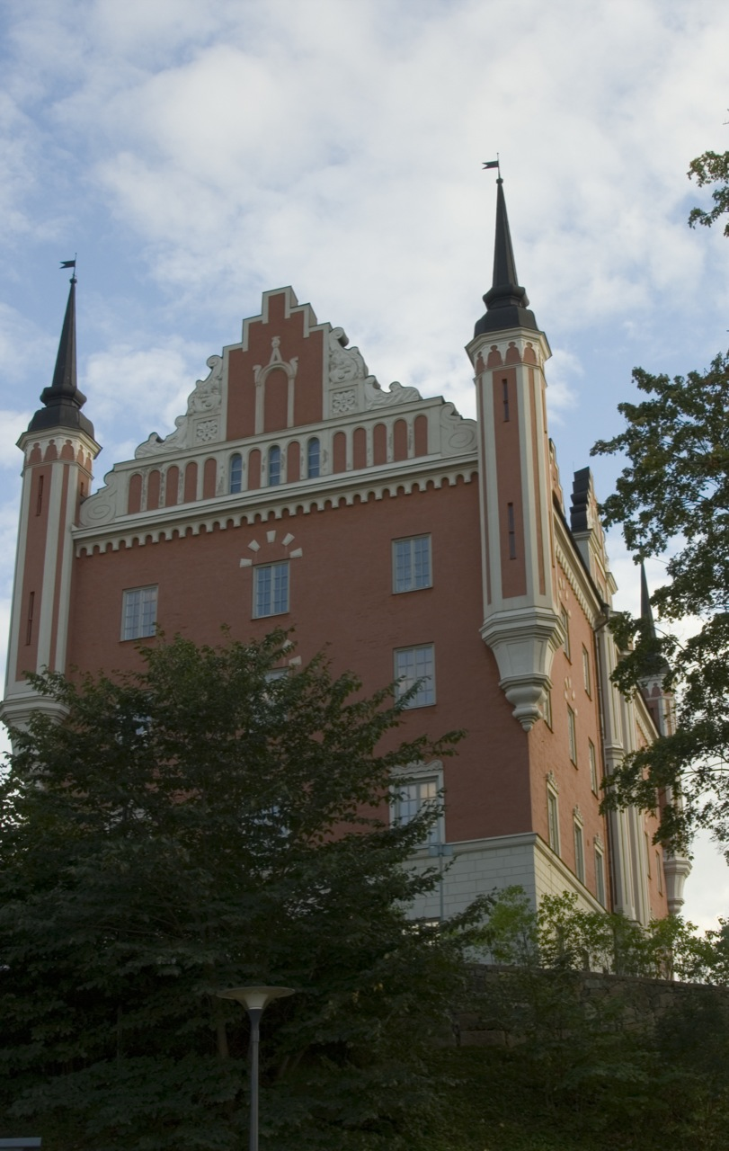 View of Amiralitetshuset ("The Admiralty House") on the islet Skeppsholmen in Stockholm.